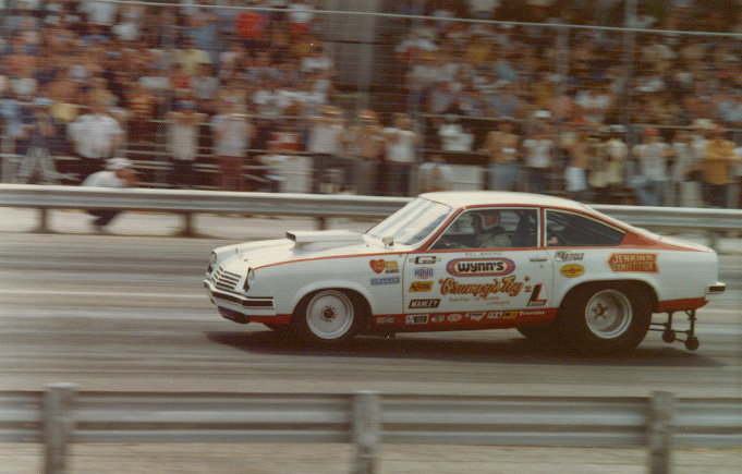 Bill Grumpy Jenkins dragster, Green Valley 1975. This car sold in 2007 for $550,000.00. He will be inducted in the International Motorsports Hall of Fame in 2008.Bill "Grumpy" Jenkins